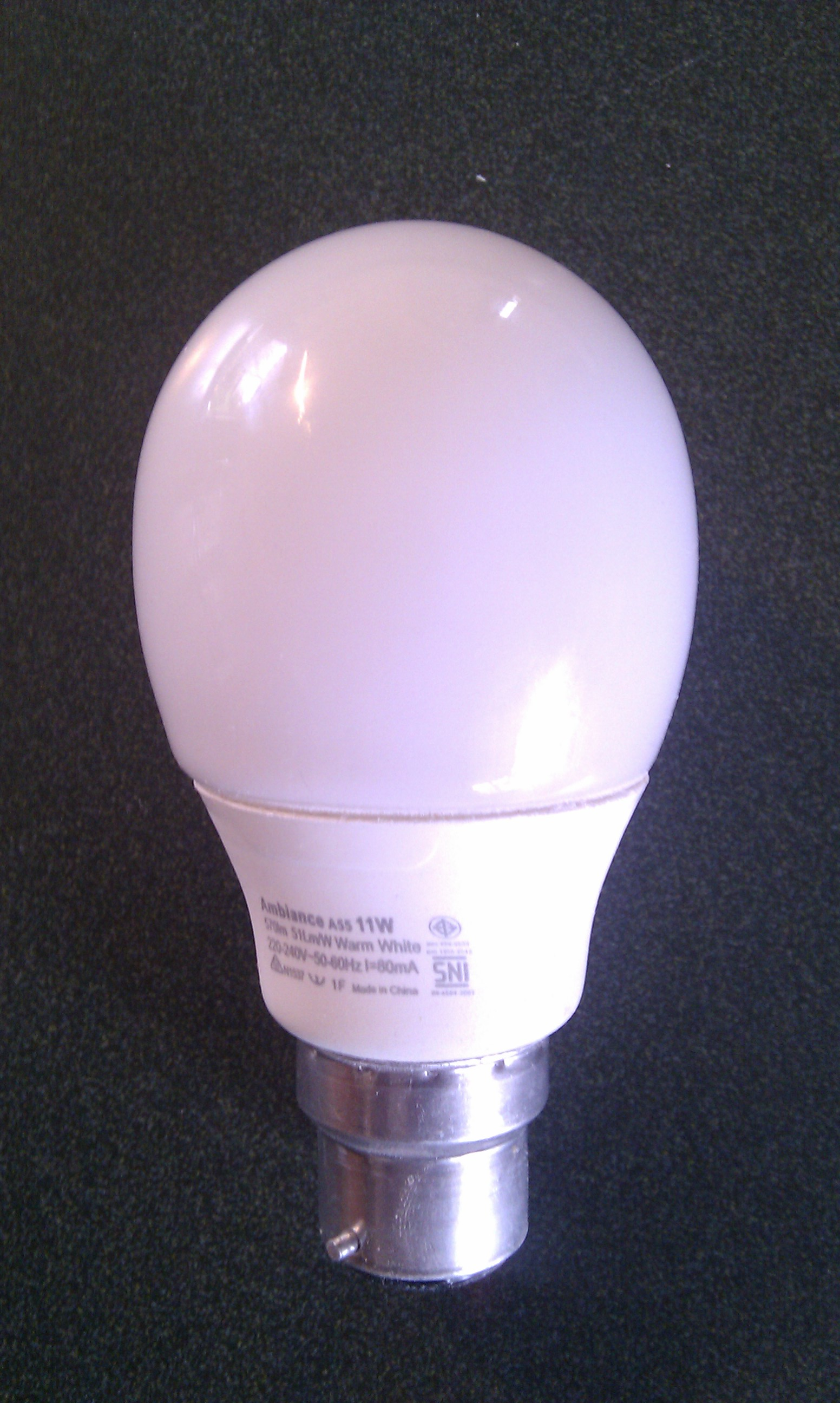 Image of closed double envelope compact fluorescent lamp